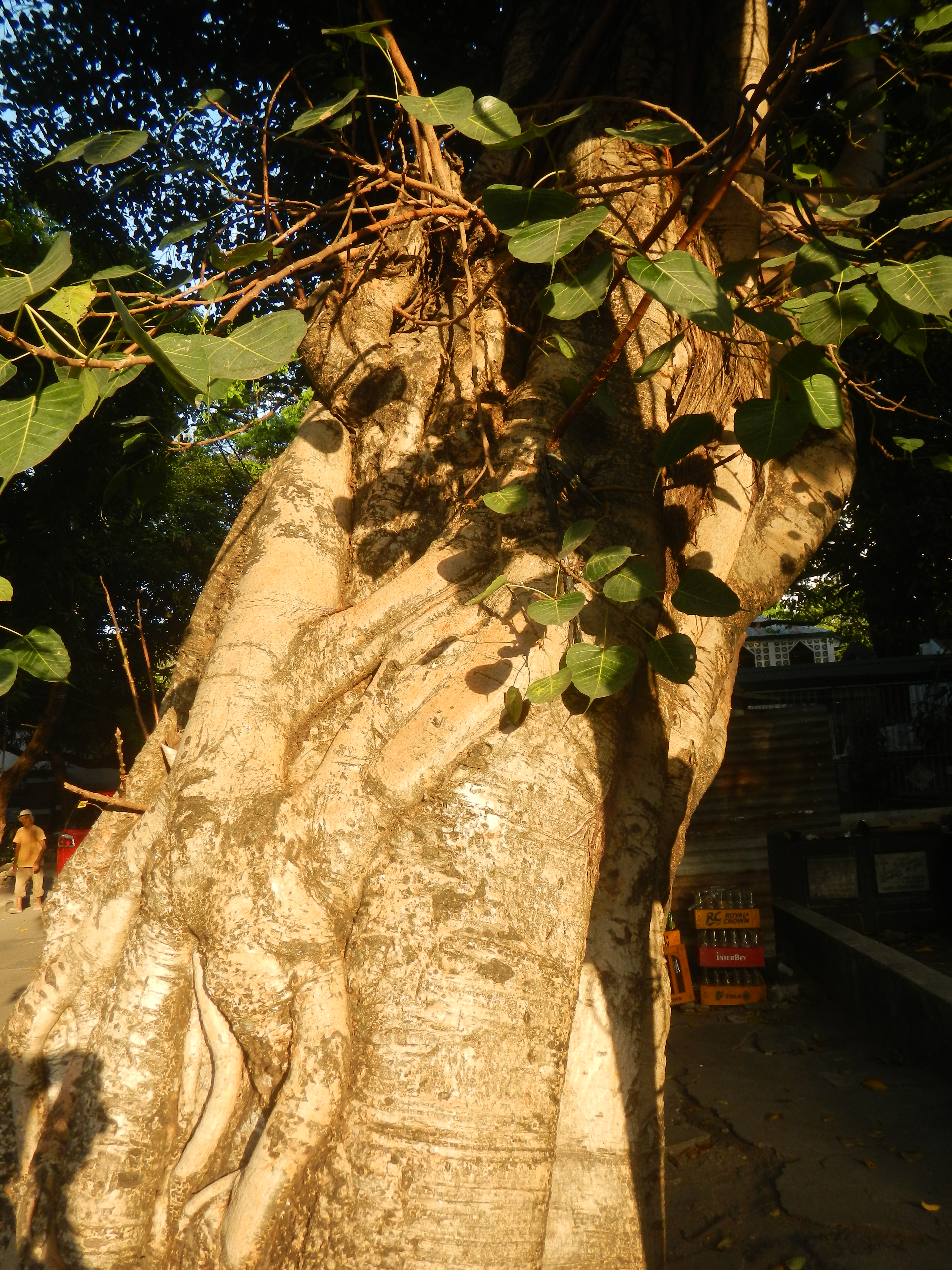 Francisco F. Benitez Elementary School South Avenue Manila South Cemetery Enclave and exclave it is legally an exclave of Manila as part of San Andres, Manila Vito Cruz Extension (Chino Roces Avenue & South Avenue, Santa Cruz-San Antonio, Makati City) Chino Roces Avenue corner Pablo Ocampo Street to Makati Avenue to Nicanor Garcia Street historically known as Calle Reposo 14°33'57"N 121°1'23"E corner Kalayaan Avenue to Senator Gil Puyat Avenue List of barangays of Metro Manila, Legislative districts of Makati, Barangays Santa Cruz 14°34'2"N 121°0'55"E San Antonio 14°33'45"N 121°0'35"E La Paz 14°34'7"N 121°0'32"E Tejeros 14°34'18"N 121°0'48"E Bel-Air 14°33'38"N 121°1'40"E Bel-Air Village Makati City (Note: Judge Florentino Floro, the owner, to repeat, Donor Florentino Floro of all these photos hereby donate gratuitously, freely and unconditionally all these photos to and for Wikimedia Commons, exclusively, for public use of the public domain, and again without any condition whatsoever).